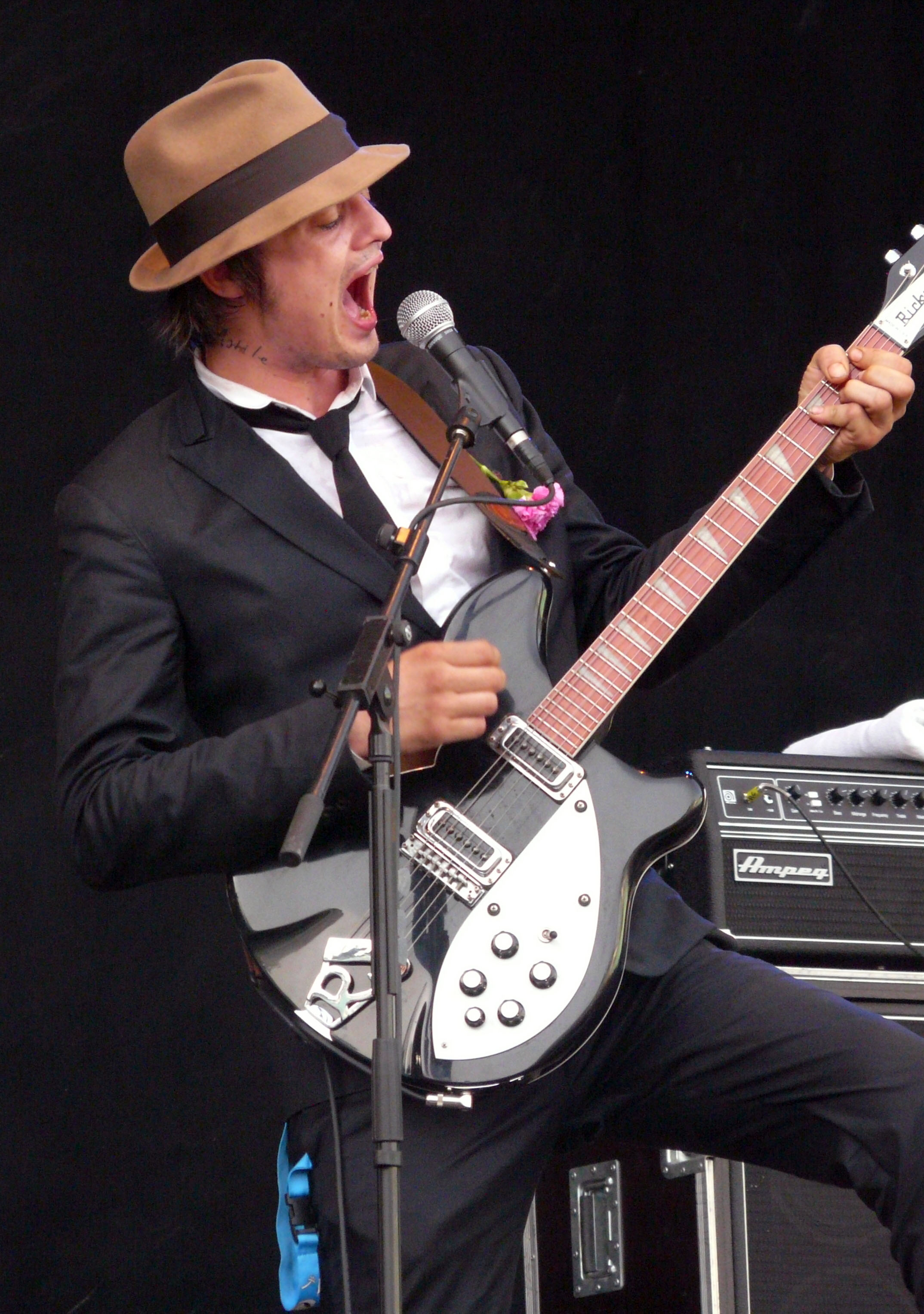 Pete Doherty at the Saturday Night FIBer festival in Madrid, July 19 2008.